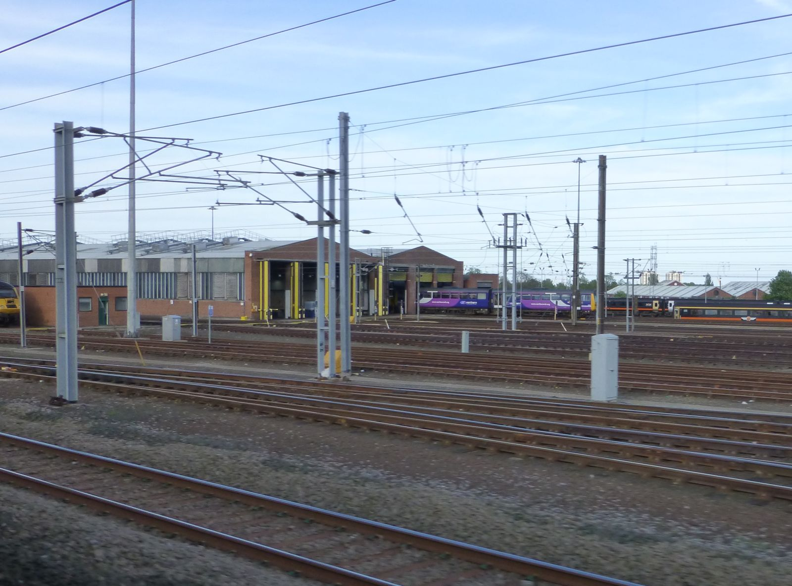 Railway Maintenance Depot